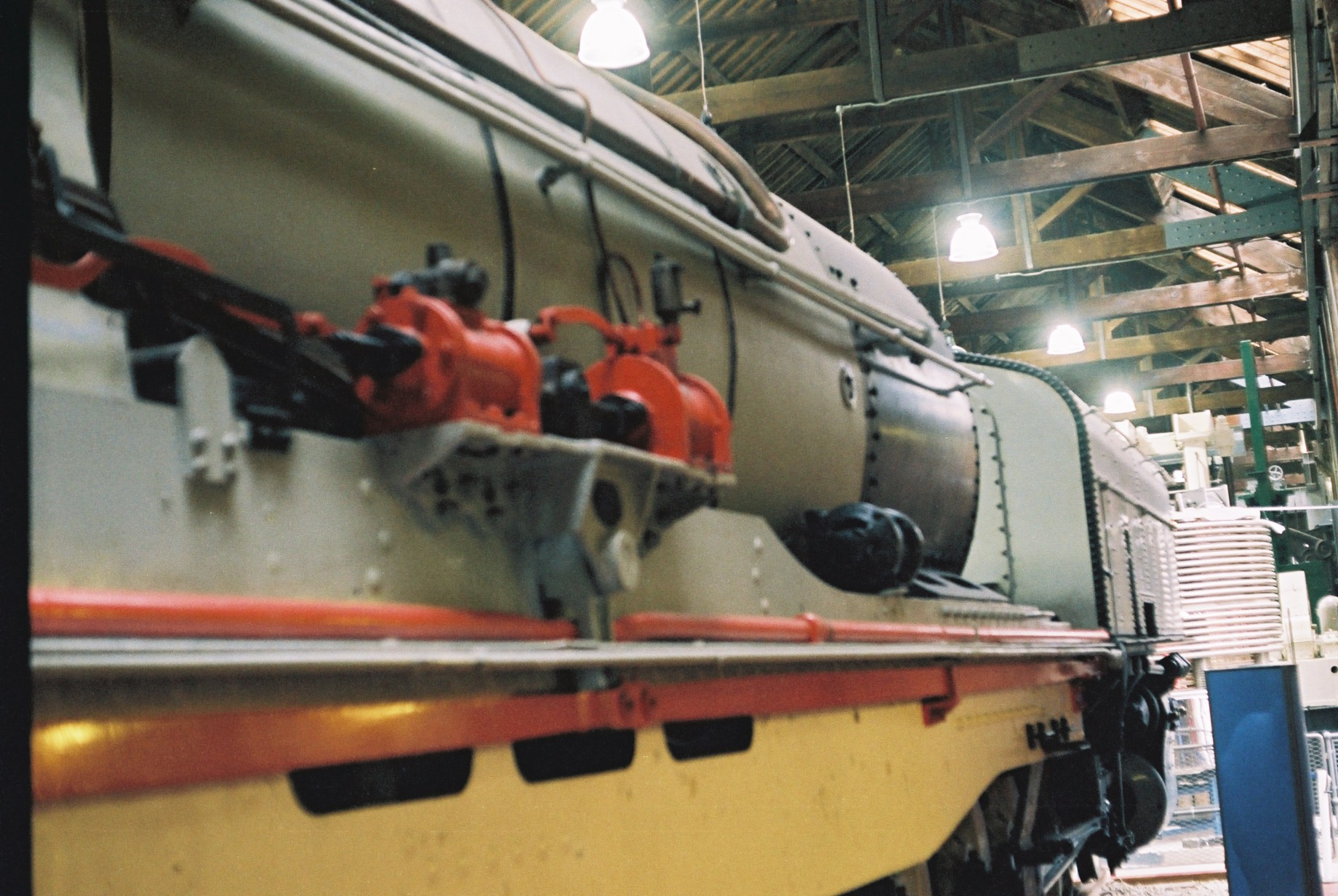 The Hadfield power reverser and turbogenerator (left and right respectively) of GL No. 2352 GL class Garratt steam locomotive of South African Railways, on display at the Museum of Science and Industry in Manchester